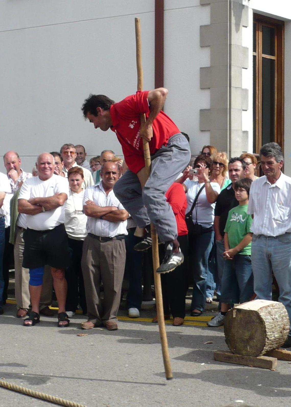 Man riding the stick on 28 July, Day of Cantabria, in Puente San Miguel, Cantabria, Spain. Montañes: Mozu andando al palu el 28 Santiagu, Día de Cantabria, en Bárcena la Puenti.